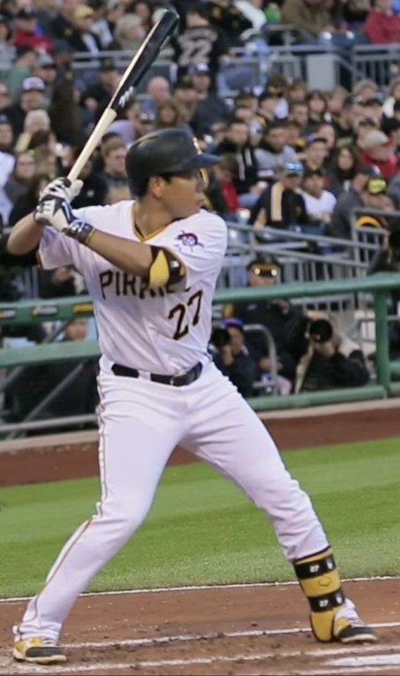 Jung-ho Kang hitting in a game